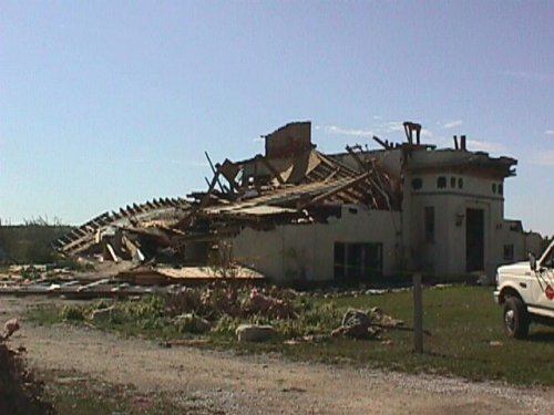 Low resolution image of damage by the 1998 Door County Tornado, Wisconsin's 8th most costly tornado. Taken near Wisconsin Highway 42. (Photo by Jill Last of NWS Green Bay)